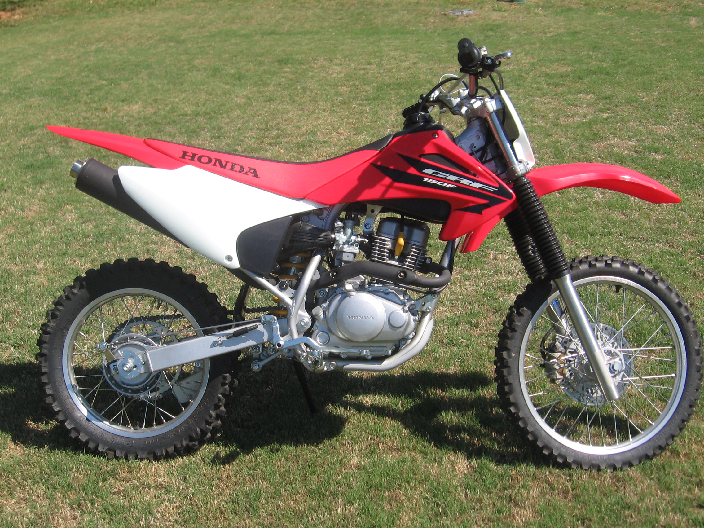 2006 Honda CRF 150F, Straight from the FactoryDate: May 17, 2007Author: Ricky Strom